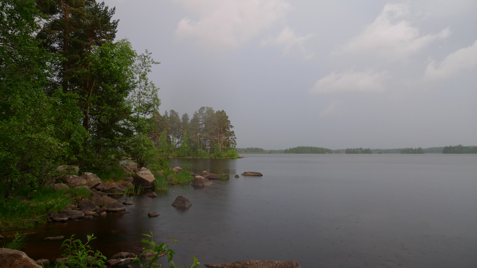 Sokolinnoe Lake near Vyborg